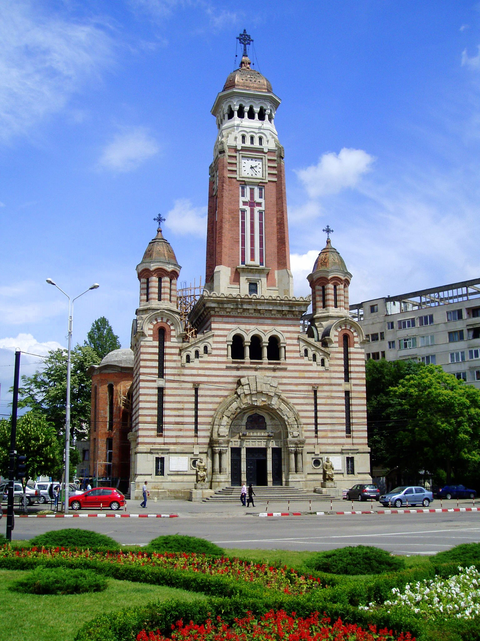 Cathedral St John the Baptist in Ploieşti, Romania. Architect: Toma T. Socolescu. This building is classified historical monument. It is located Piaţa Eroilor, Ploieşti, Judeţul Prahova, Romania. We are the only heirs and descendants of Toma T. Socolescu (died in 1960 in Bucharest) and therefore owner of all his intellectual rights.